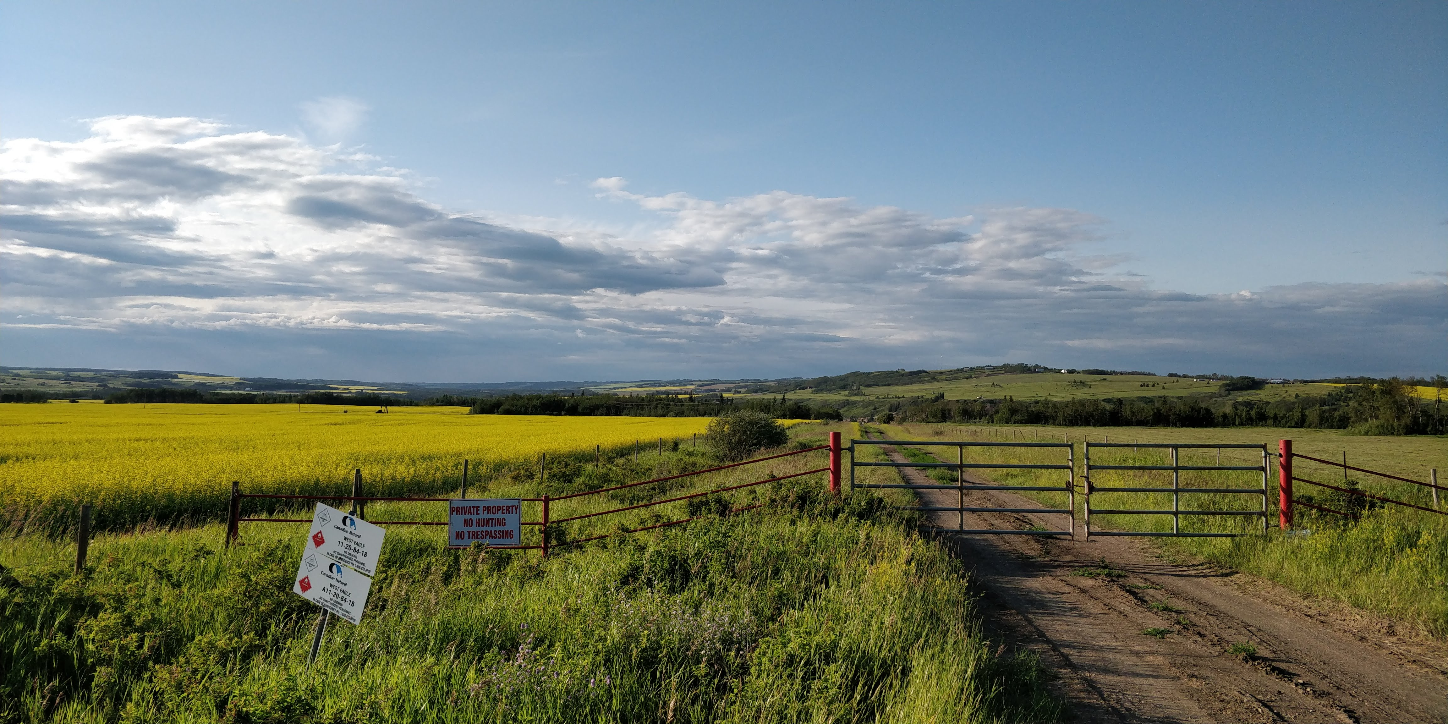 Blooming canola just outside Fort St. John, British Columbia, Canada.